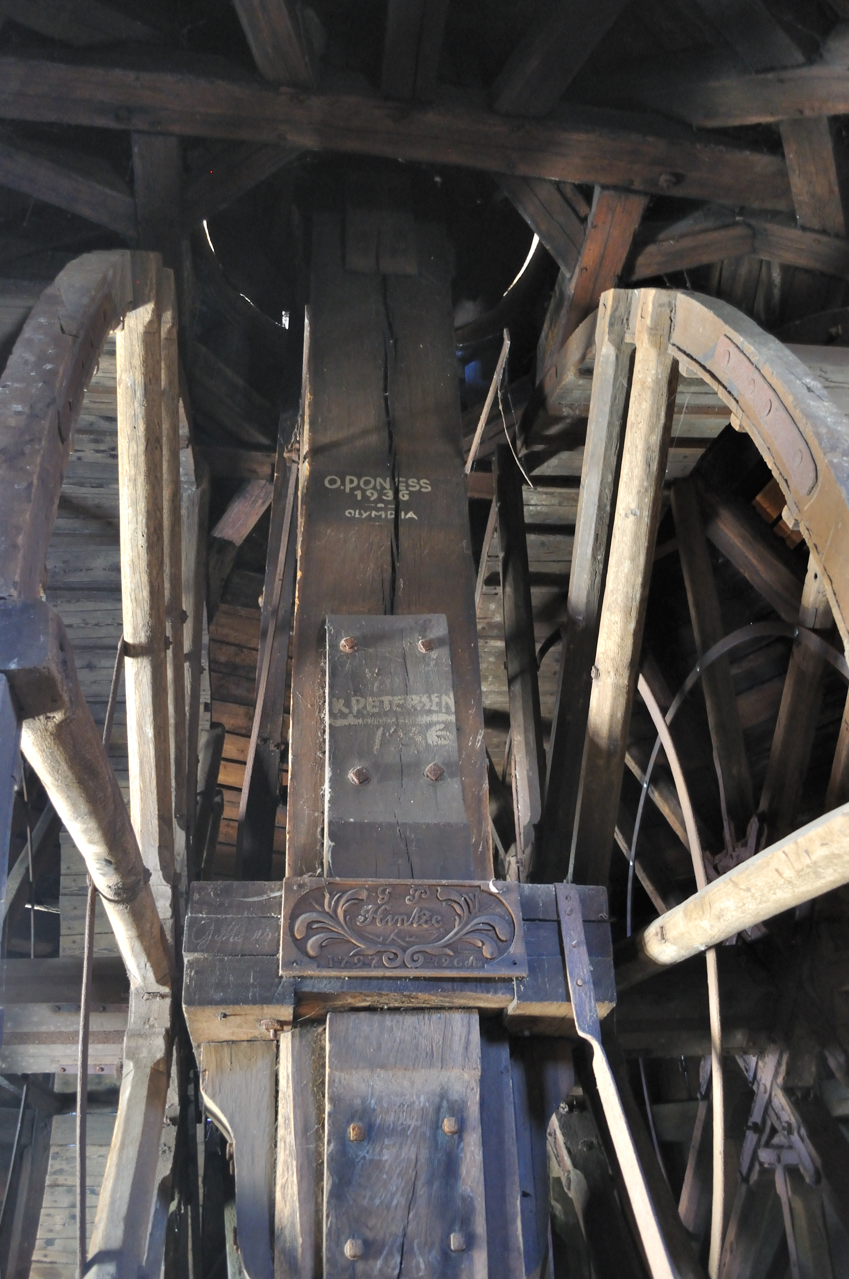 Picture taken in Lüneburg during Skillshare conference.